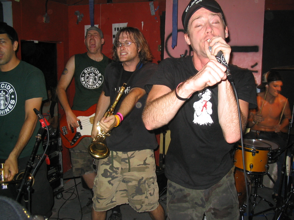 Big D at the Che Cafe, on the UCSD campus in San Diego.Big D and The Kids Table